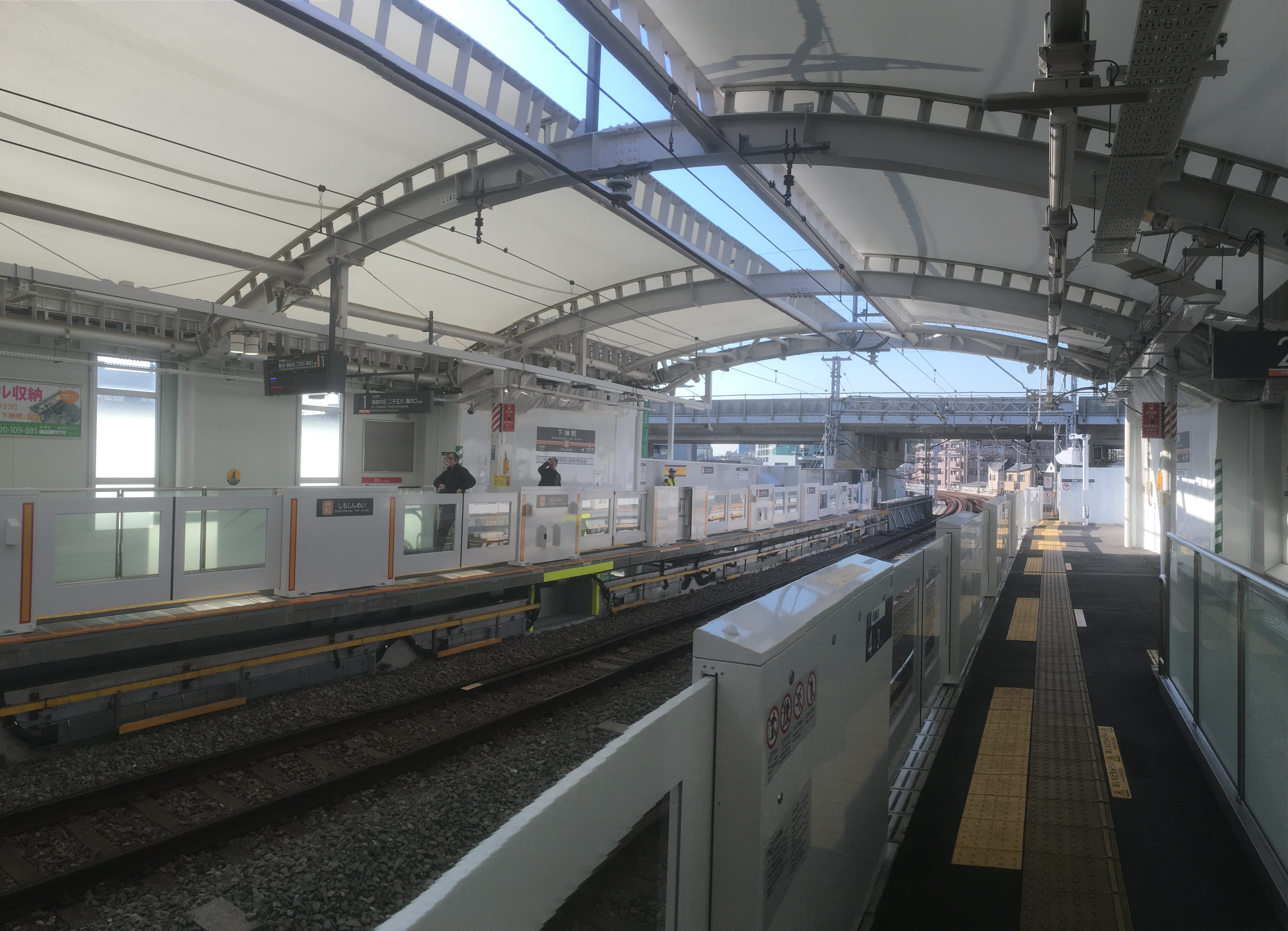 Shimo-Shimmei Station platforms (下神明駅のホーム)